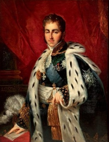 Jules de Polignac